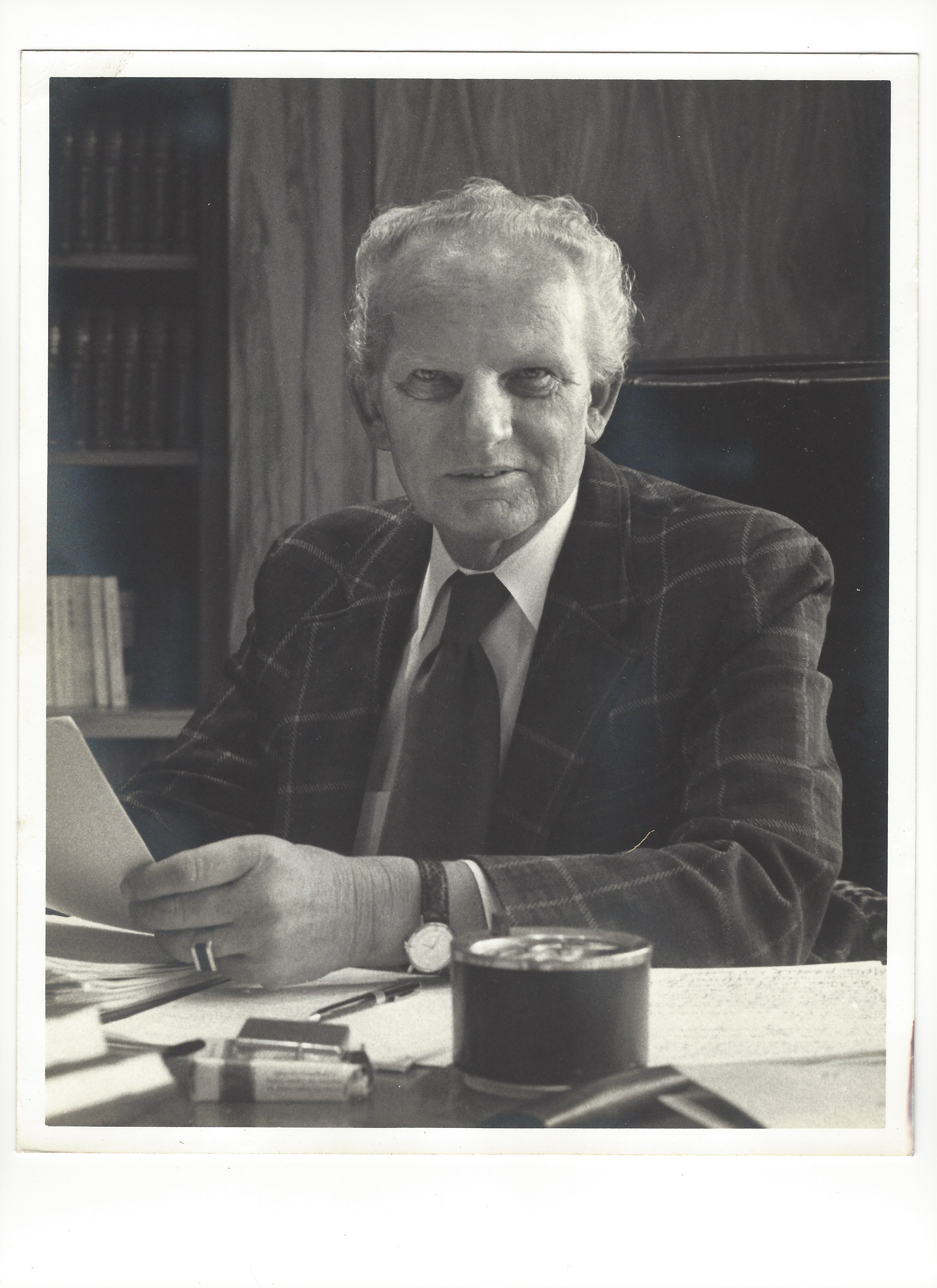 Judge Nielsen at his desk in his chambers, Southern District California, San Diego